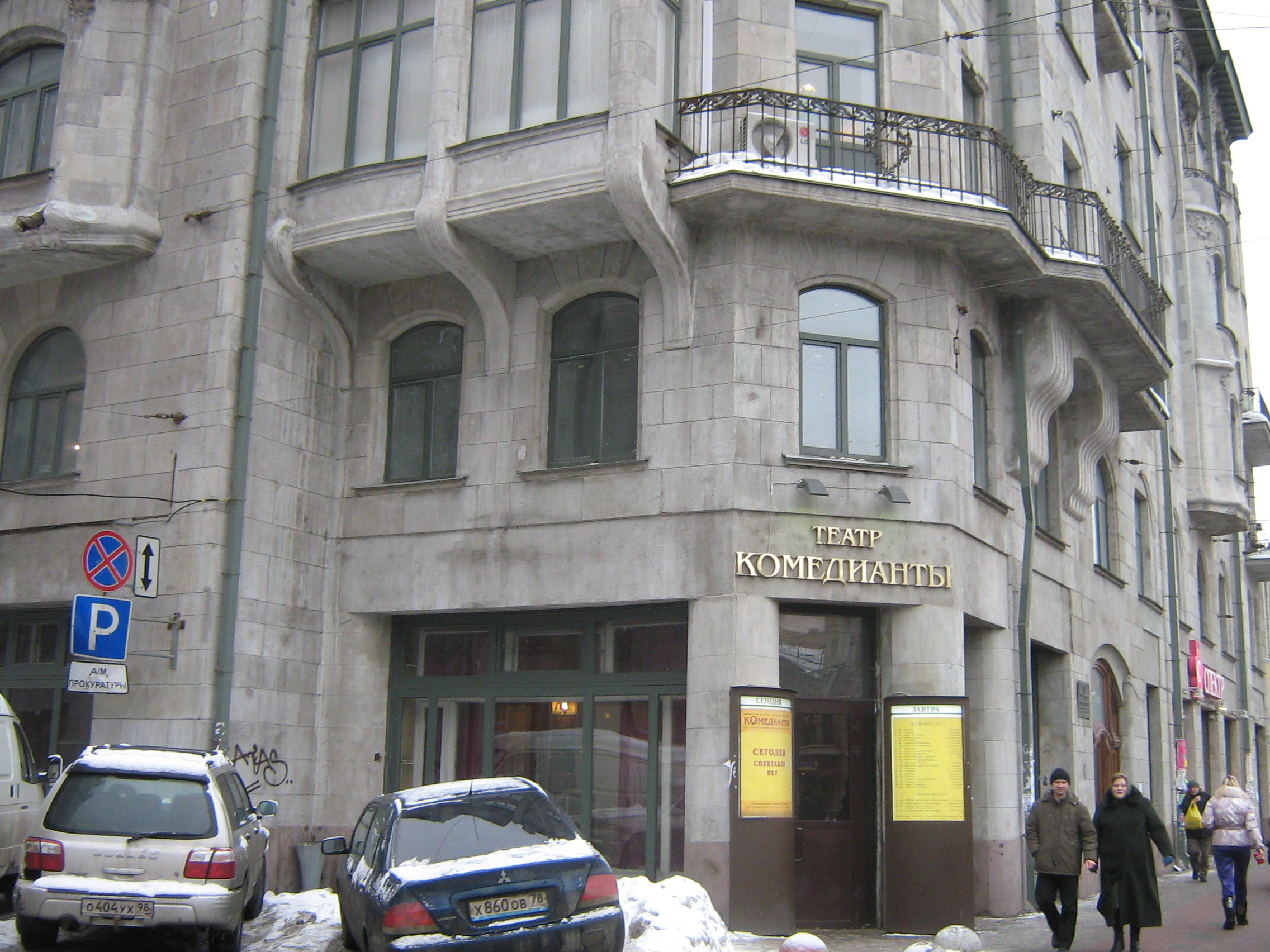 Saint Petersburg (Russia), Ligovsky Prospekt